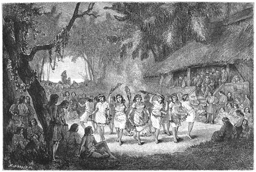 A feast in Uvea (Wallis), from the book Les îles Wallis by Emile Deschamps (Dutch edition published in 1886 under the title De Wallis Eilanden).